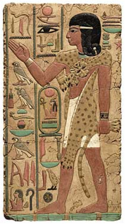 Image from king Seti I, priest (Hor-iunu-mutef), beloved of the king (heka as in ruler) beloved of Ra, the dead king (Usir-Nesut) Maat-men-ra.